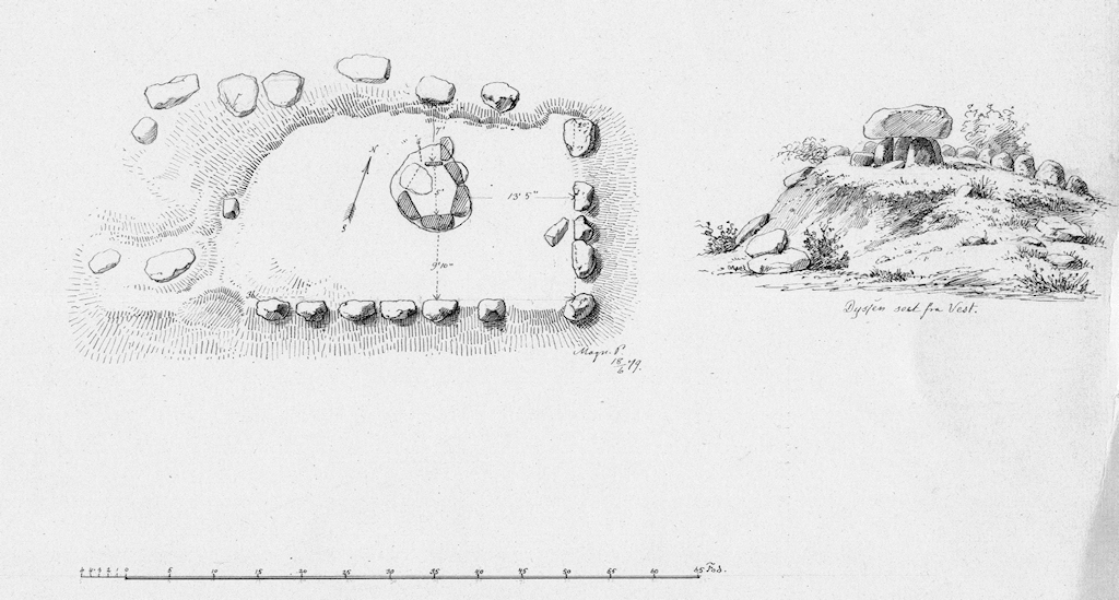 Drawing of mound, from examination in 1879